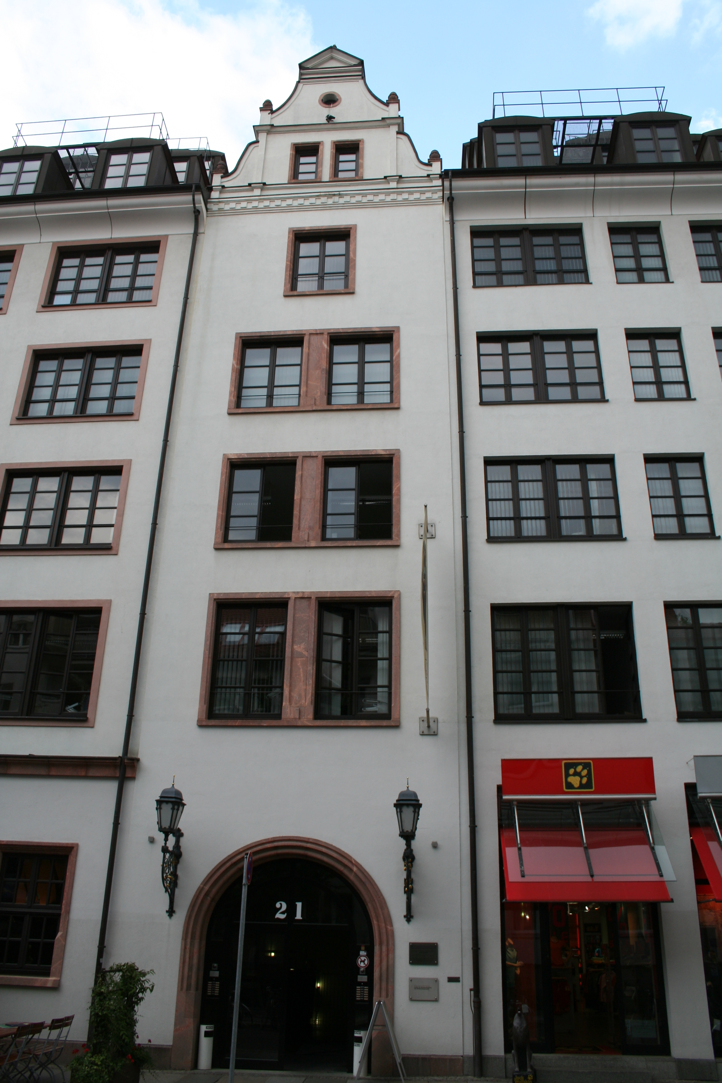 Entrance to Ägyptisches Museum Georg Steindorff Leipzig (Interim)